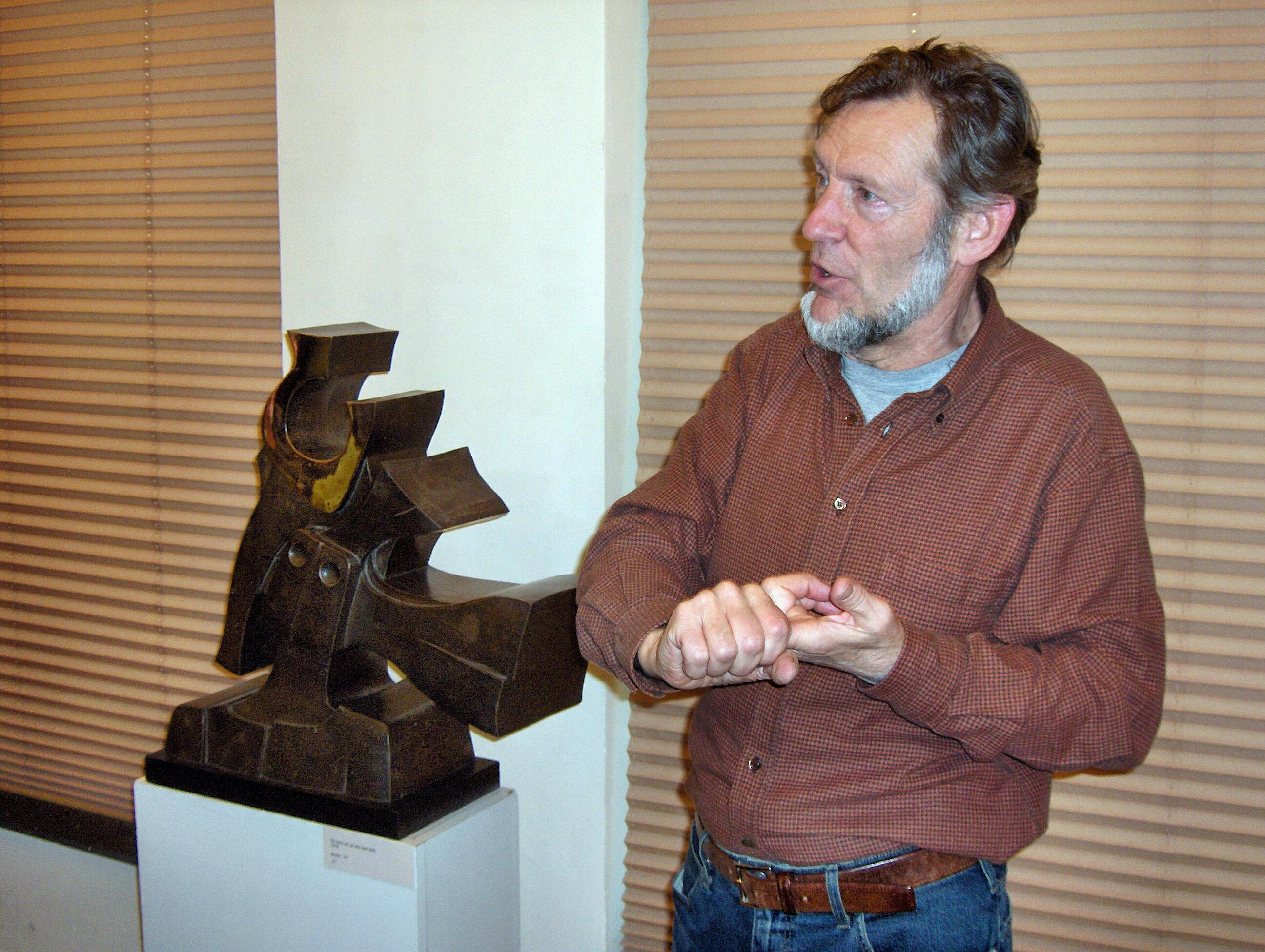 The artist Hubert Minnebo explaining his work during a retrospective exhibition in Oostende, Belgium